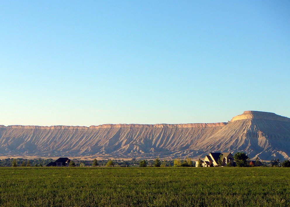 Summary Mount Garfield (right) near Grand Junction, CO Taken by Sean Davis Category:Images of Colorado